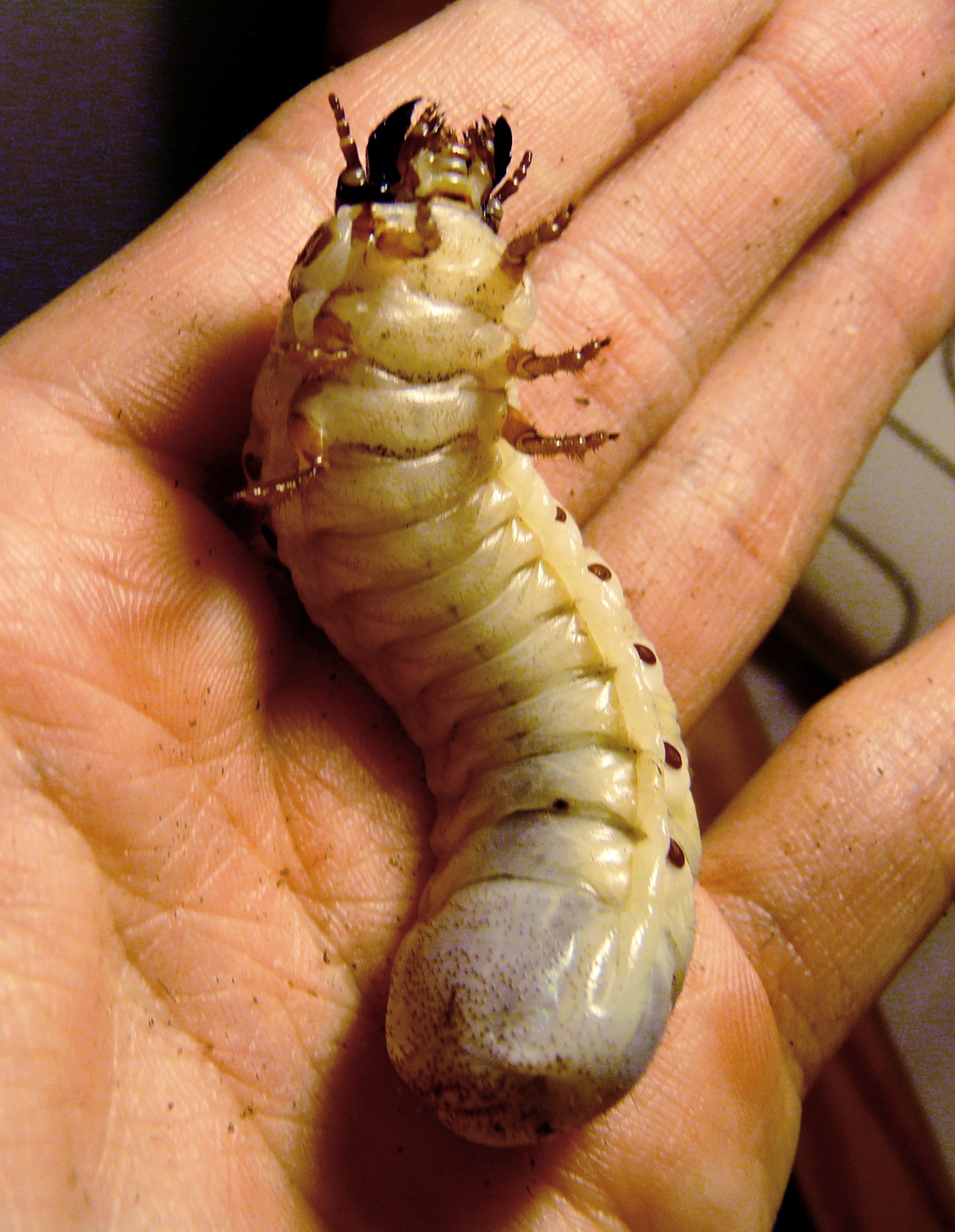 A 3rd instar female larva of Mecynorhina torquata ugandensis beetle on hand. The picture has been slightly lightened from the original file. The larva should have pretty much the same color in the picture as the real thing.